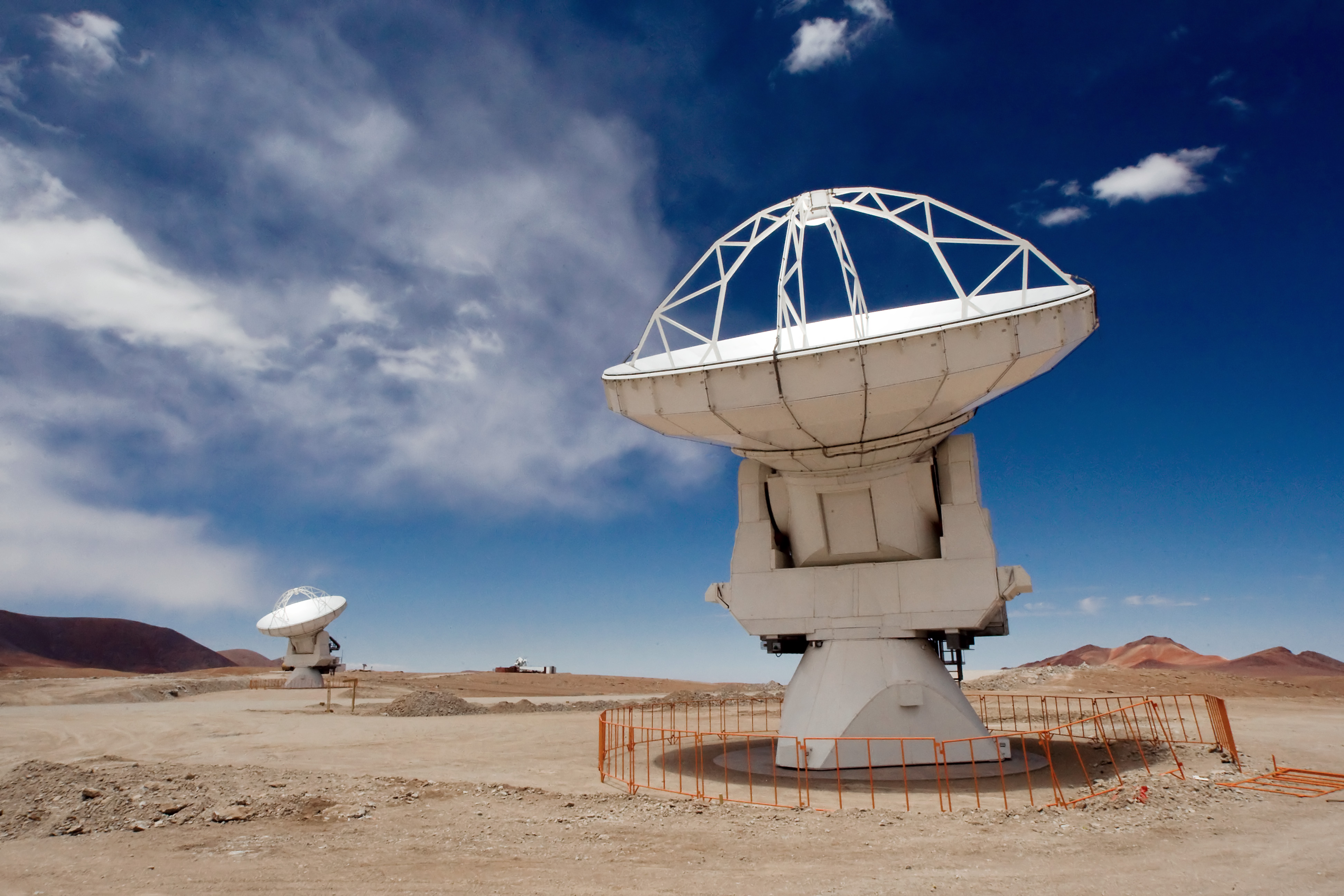 Two of the Atacama Large Millimeter/submillimeter Array (ALMA) 12-metre antennas gaze at the sky at the observatory’s Array Operations Site (AOS), high on the Chajnantor plateau at an altitude of 5000 metres in the Chilean Andes. Eight antennas have been installed at the AOS since November 2009. More antennas will be installed on the Chajnantor plateau during the next months and beyond, allowing astronomers to start producing early scientific results with the ALMA system around late 2011. After this, the interferometer will steadily grow to reach its full scientific potential, with at least 66 antennas. ALMA is the largest ground-based astronomy project in existence, and will comprise a giant array of 12-metre submillimetre quality antennas, with baselines of up to about 16 kilometres. An additional, compact array of 7-metre and 12-metre antennas will complement the main array. The ALMA project is an international collaboration between Europe, East Asia and North America in cooperation with the Republic of Chile. ESO is the European partner in ALMA.